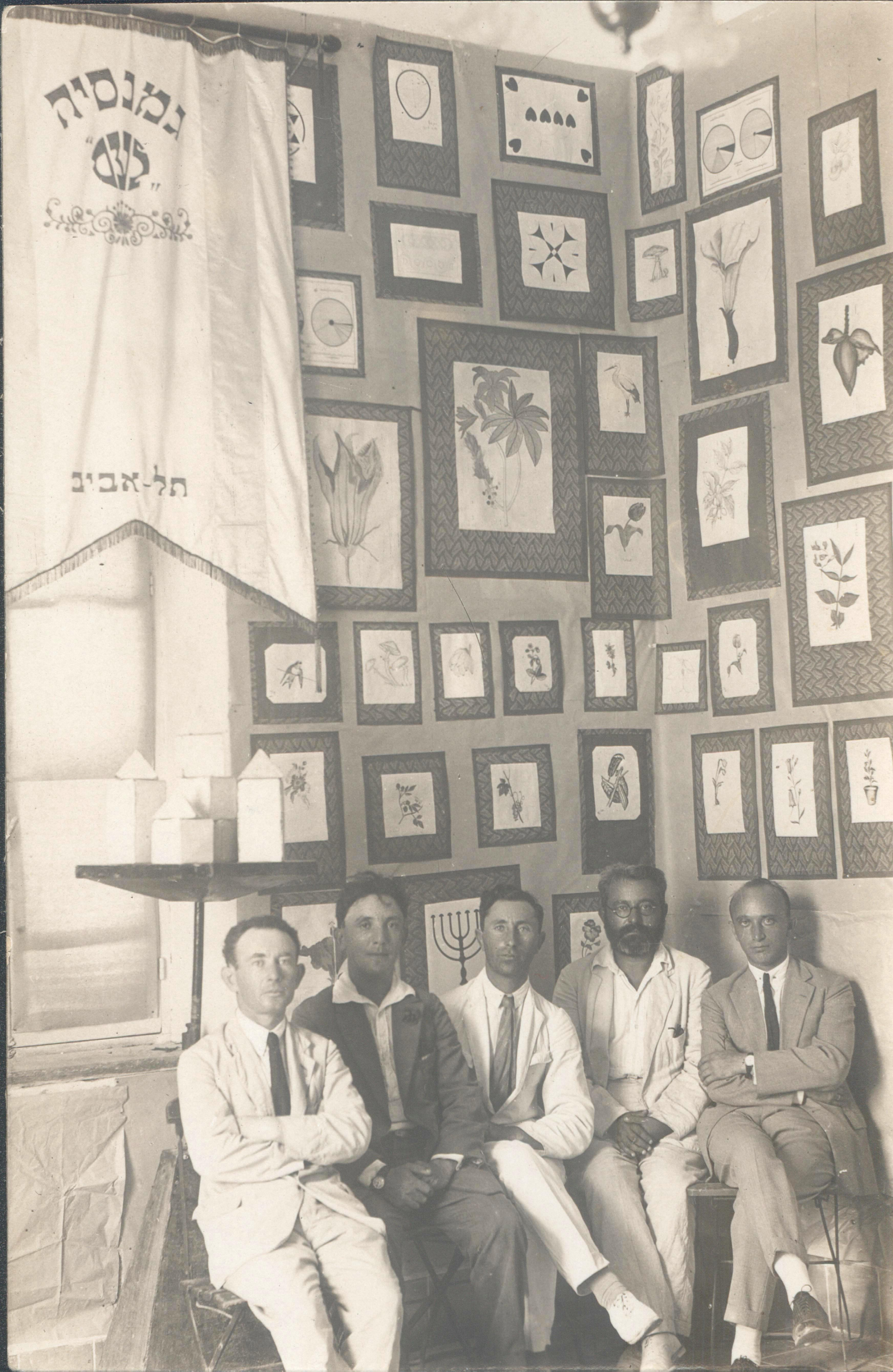 Norida high school